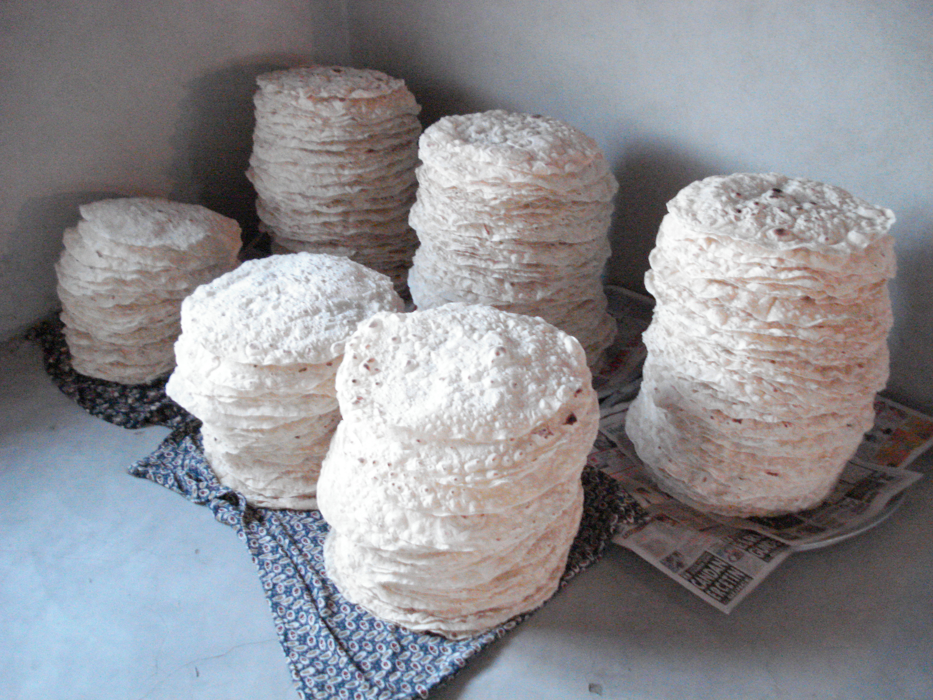 Yufka, a kind of bread from Turkish cuisine